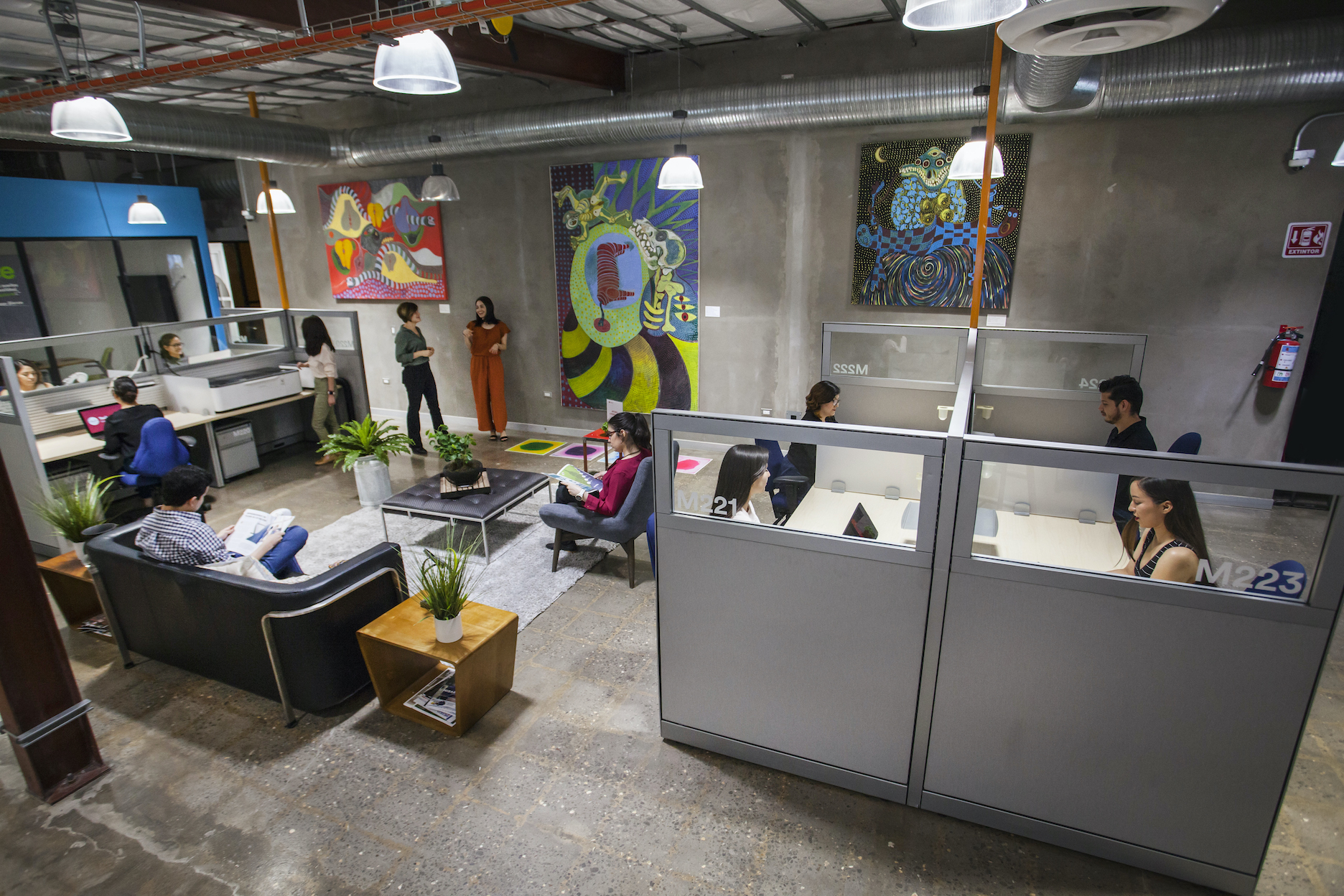 Open-floor plan coworking office space in Technology Hub's business center facility in Ciudad Juarez, Mexico.